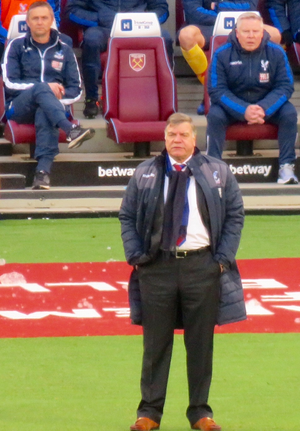 Crystal Palace manager, Sam Allardyce(front) at the London Stadium, during their Premier League game against West Ham United. Kevin Keen(left) and Sammy Lee(right) are behind and seated.